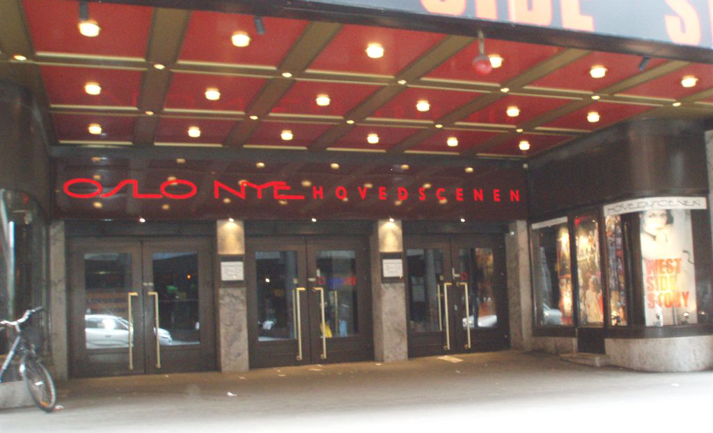 Oslo new theater are Norways most popular theater. The theater got 4 stages